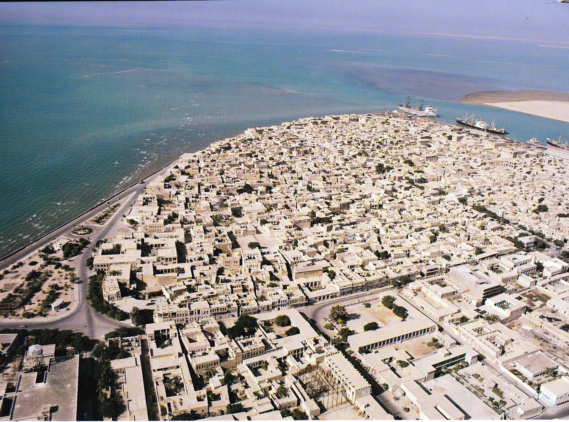 Busher